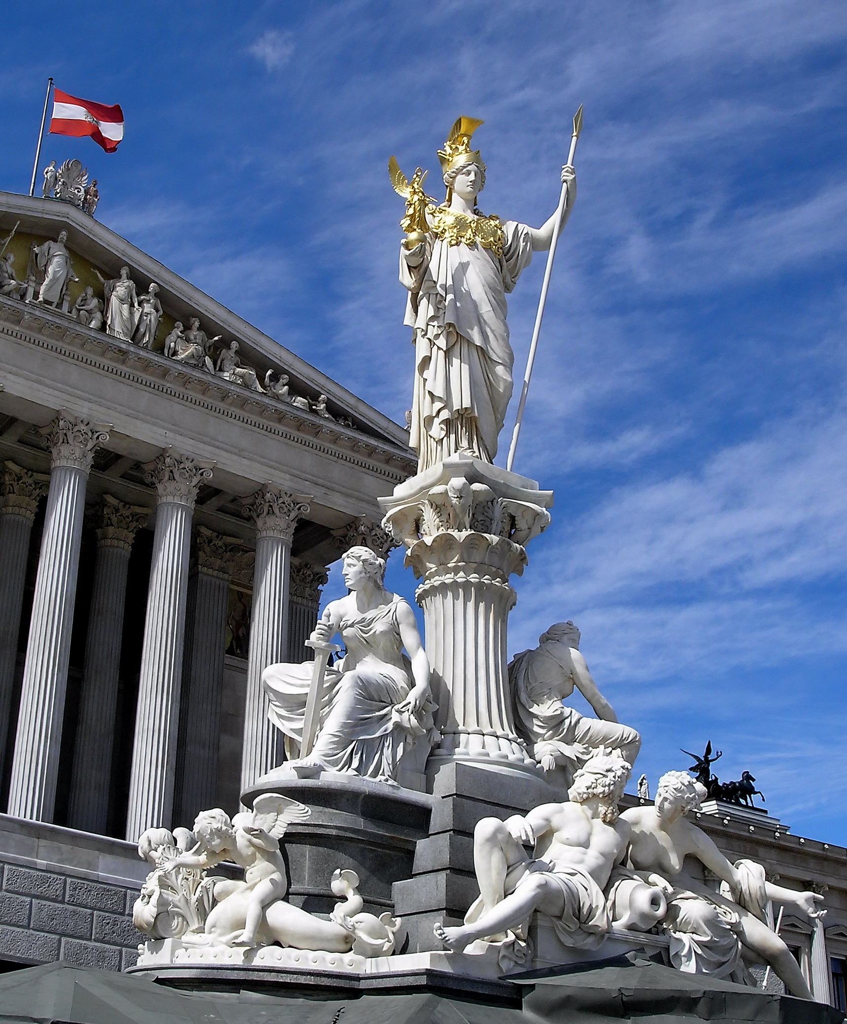 Austria, Vienna, Austrian Parliament Building